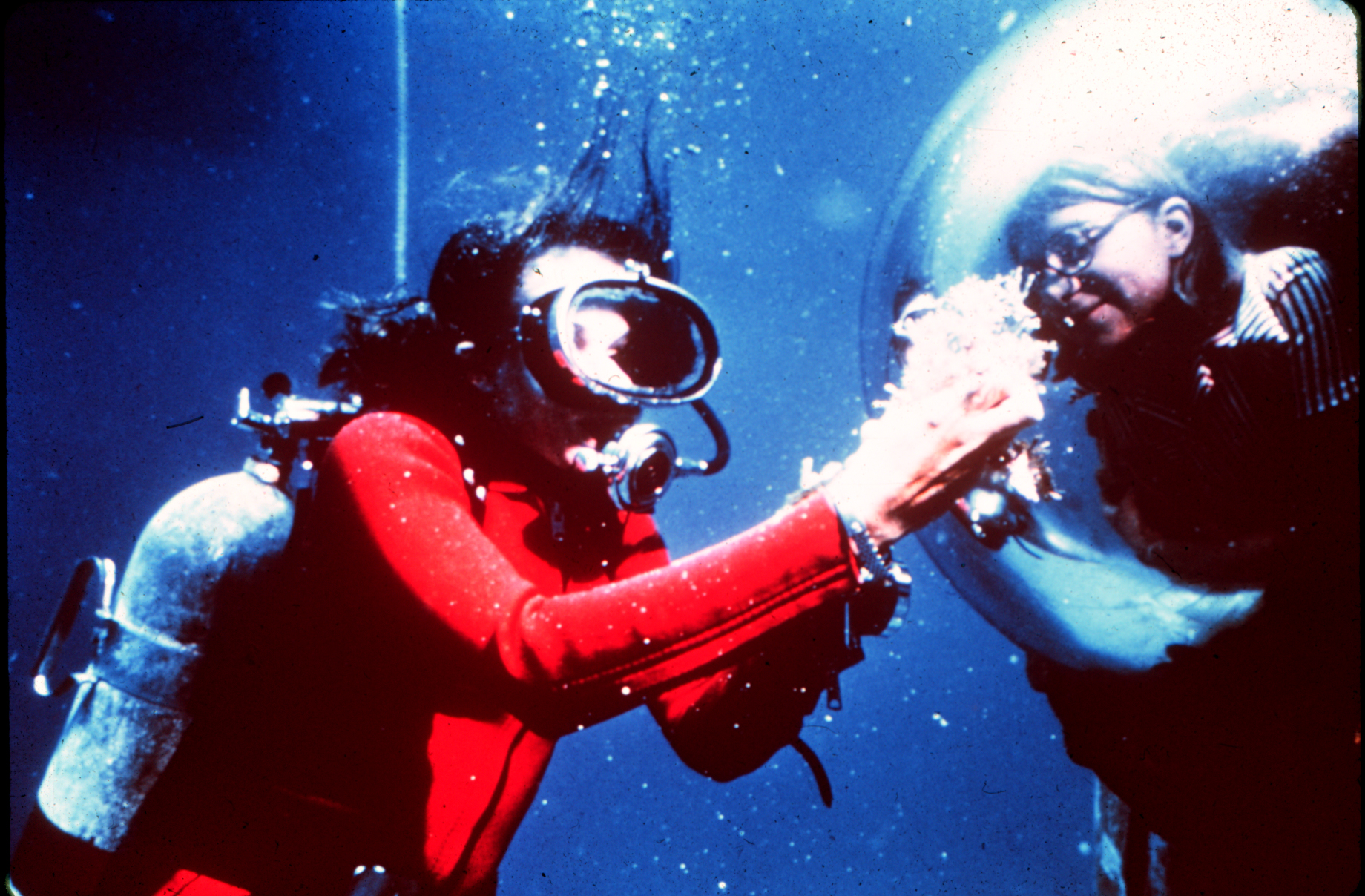 Dr. Sylvia Earle displays samples to aquanaut inside TEKTITE. Appears in National Geographic August 1971